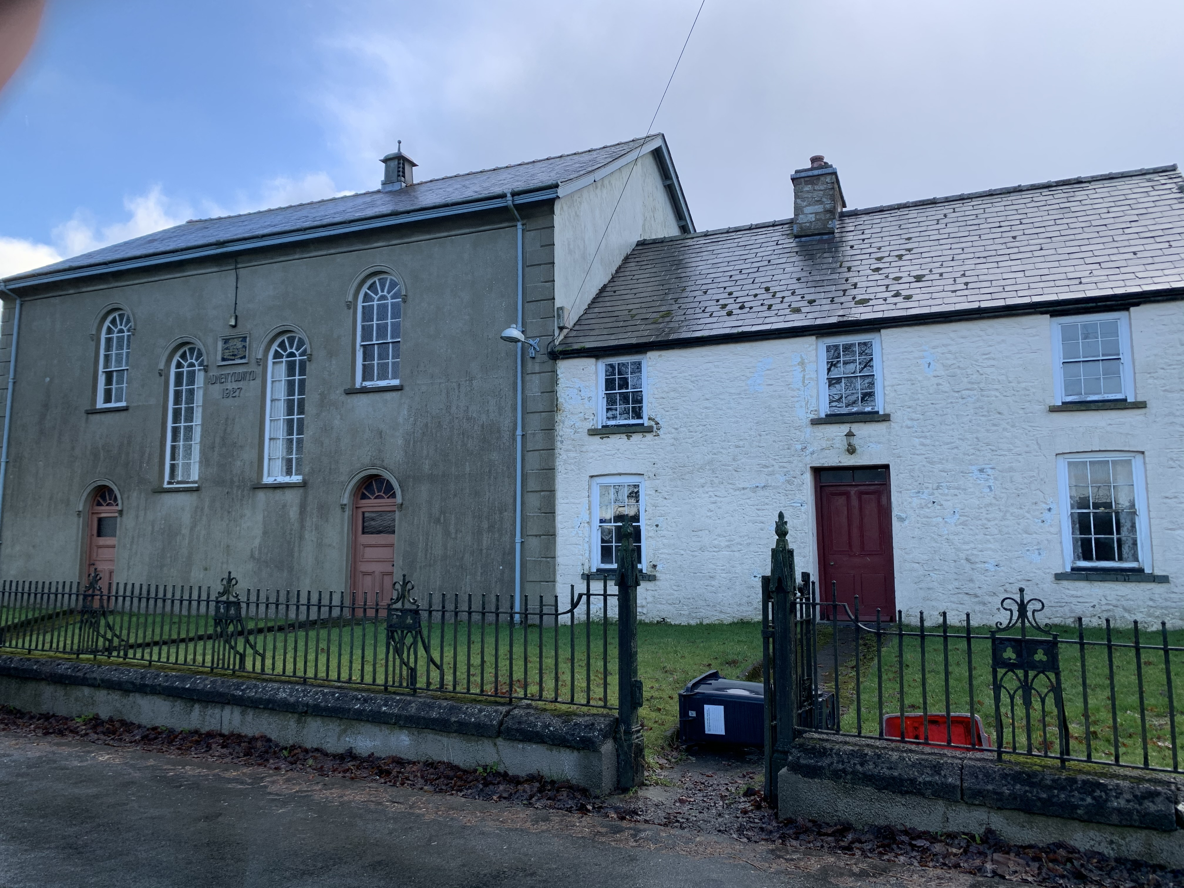 buildings in Cefn Gorwydd, with Gosen Methodist chapel on the LHS